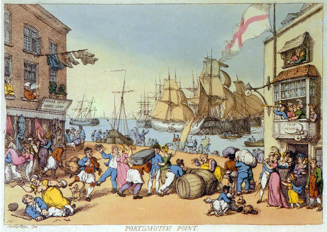 "Portsmouth Point", an 1811 caricature by Thomas Rowlandson of riotous goings on at the Portsmouth waterfront. At left an inebriated woman is being carried away; presumably she passed out as a result of the same type of carousings depicted near the center. At right (in the doorway of the "Ship Tavern"), a naval officer (note the sword he is wearing) kisses his wife as he is reunited with his family (the girl in a yellow dress running to him is presumably his daughter). The Ship Tavern flies the flag of England (not the flag of Britain or the United Kingdom).